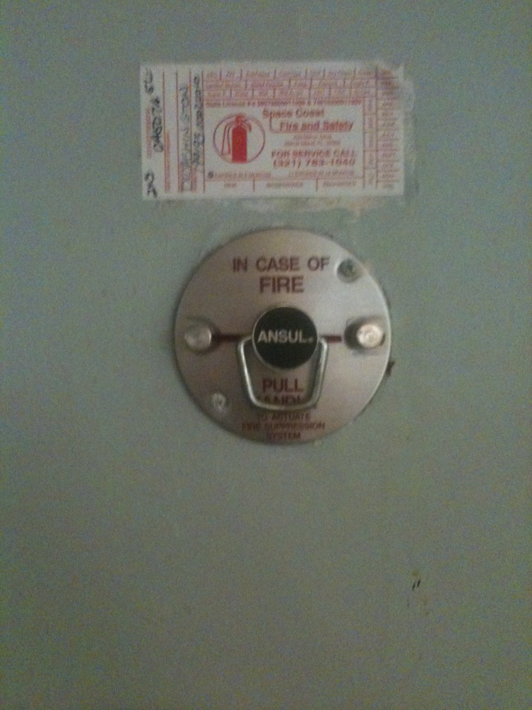 Ansul Restaurant Fire Suppression System pull station with an inspection sticker directly above in a hospital cafeteria.